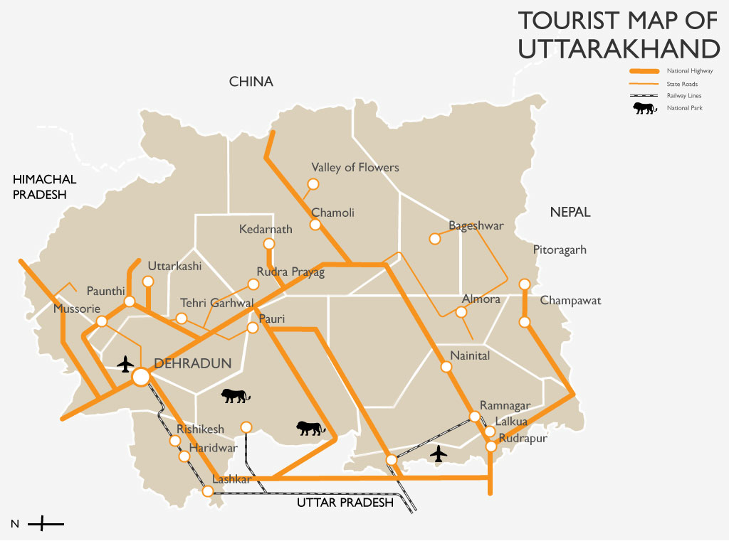 Tourist map